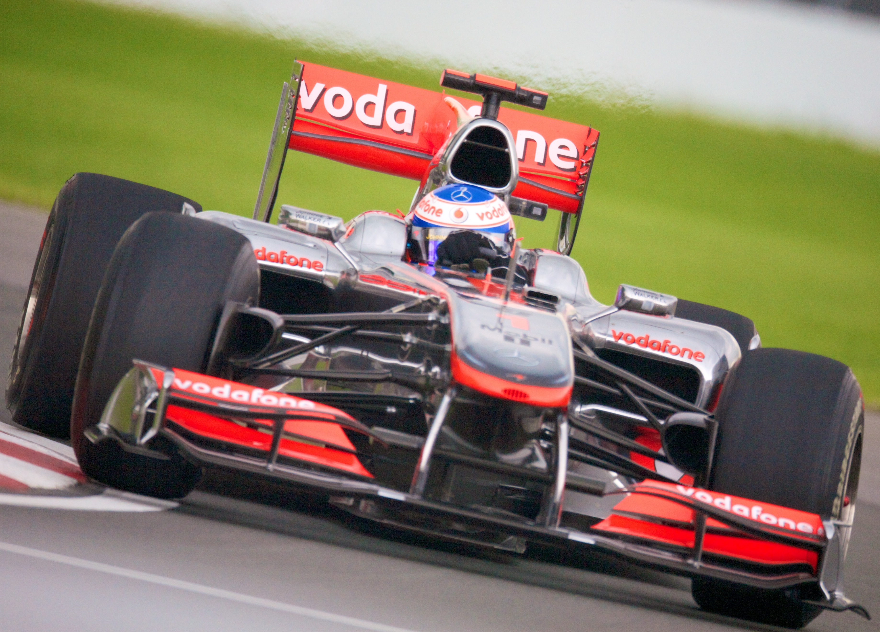 Jenson Button rounds turn 2